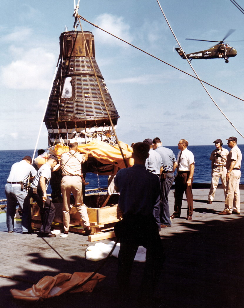 Sigma 7 spacecraft after recovery.